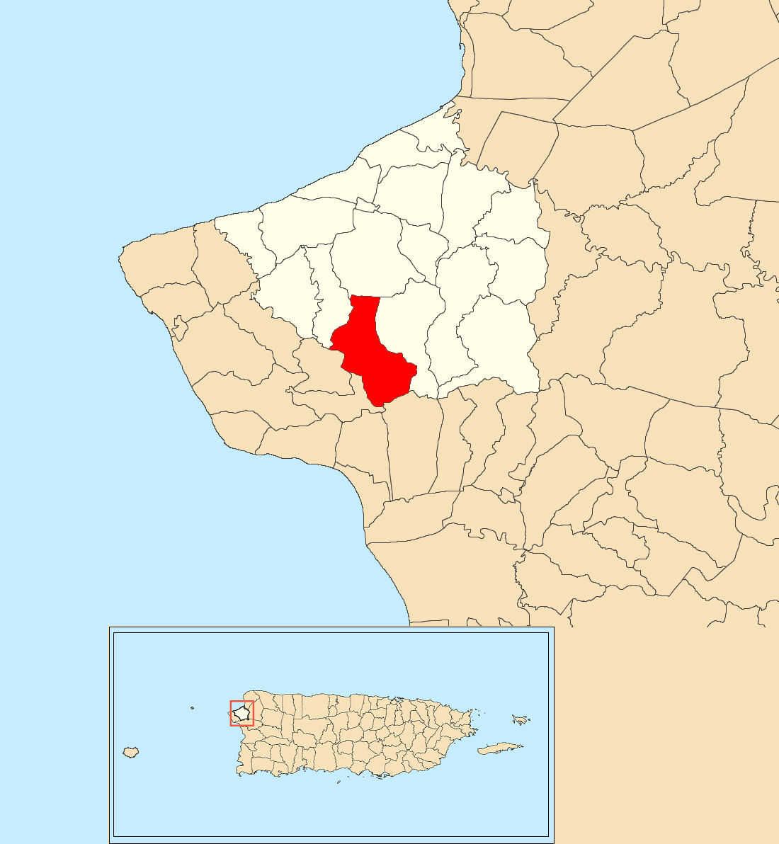 Atalaya, Aguada, Puerto Rico locator map